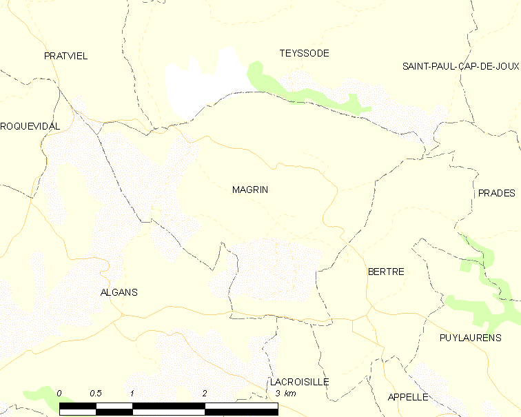 Map of French municipality Magrin